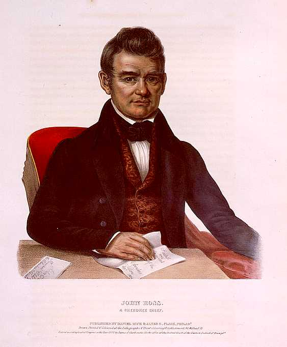 Downloaded from TITLE: John Ross, a Cherokee chief / drawn, printed & coloured at the Lithographic & Print Colouring Establishment. CALL NUMBER: PGA - McKenney & Hall--John Ross (B size) [P&P] REPRODUCTION NUMBER: LC-USZC4-3156 (color film copy transparency) LC-USZ62-12857 (b&w film copy neg.) SUMMARY: John Ross, half-length portrait, seated, facing front. MEDIUM: 1 print : lithograph, color. CREATED/PUBLISHED: Philada. : published by Daniel Rice & James G. Clark, c1843. OCLC 51163108 CREATOR: McKenney & Hall.